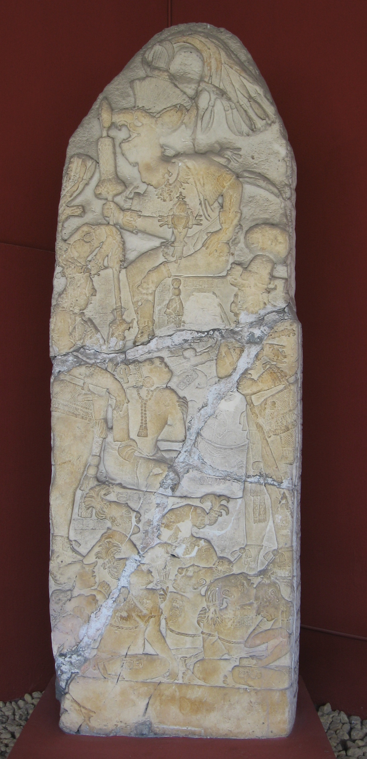 A photograph of Stela 12, from Piedras Negras. The image has been slightly cropped from the original.